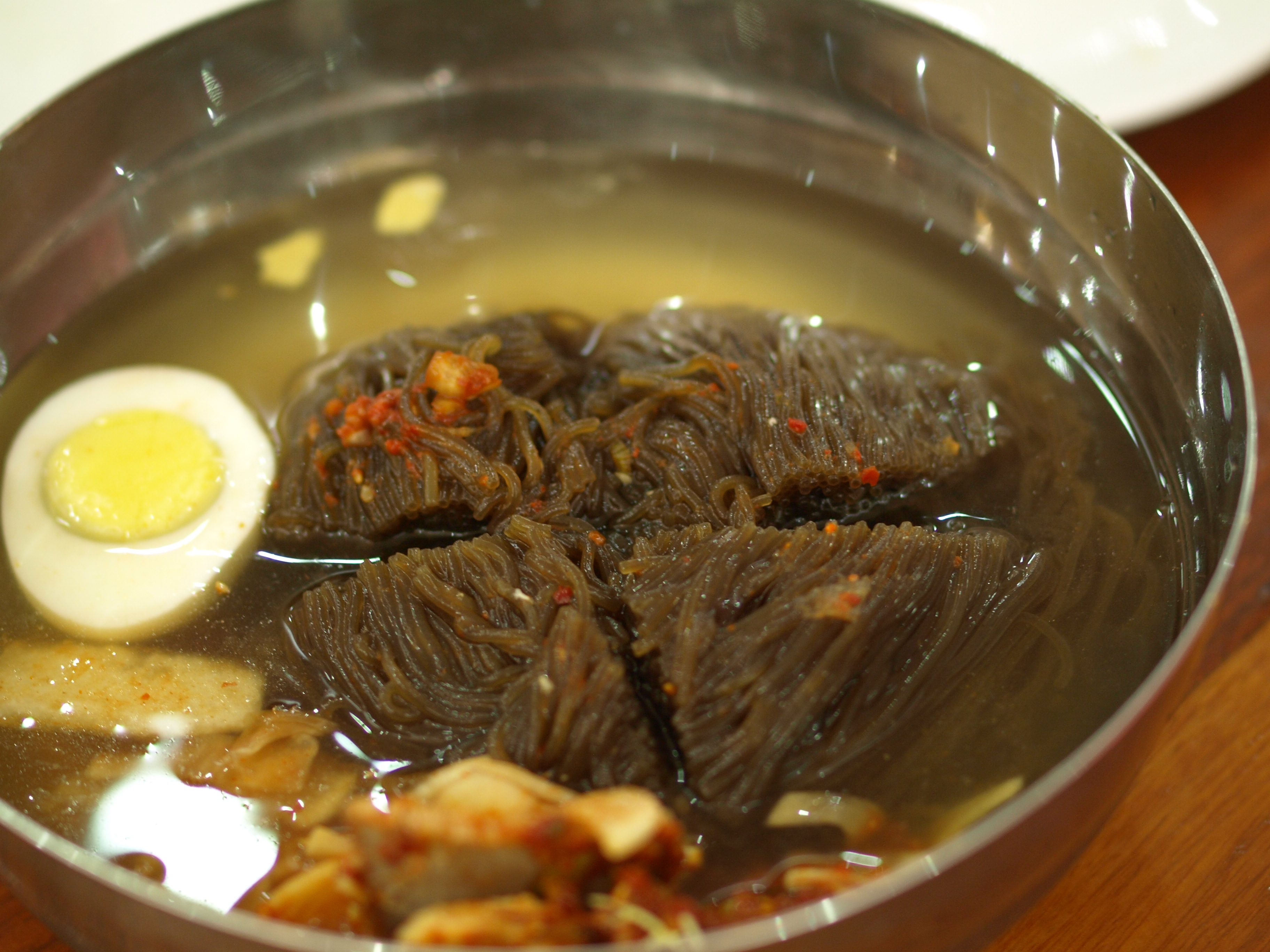 Naengmyeon, Korean cold noodle soup